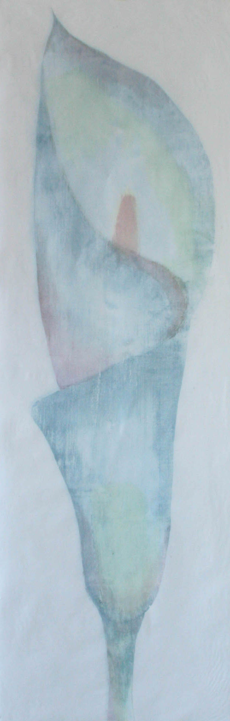 woodcut graphic